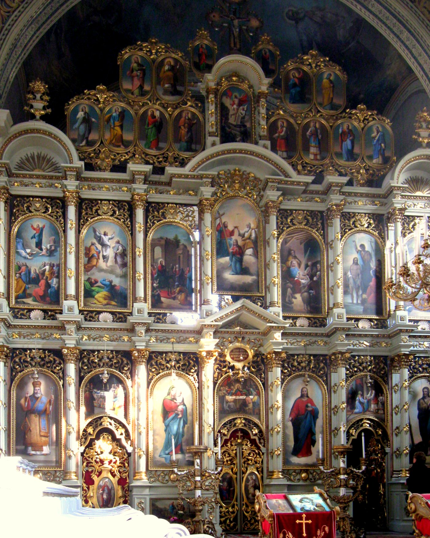 Iconostasis of the Greek Orthodox Church of St. Nicholas in Nădlac, Romania